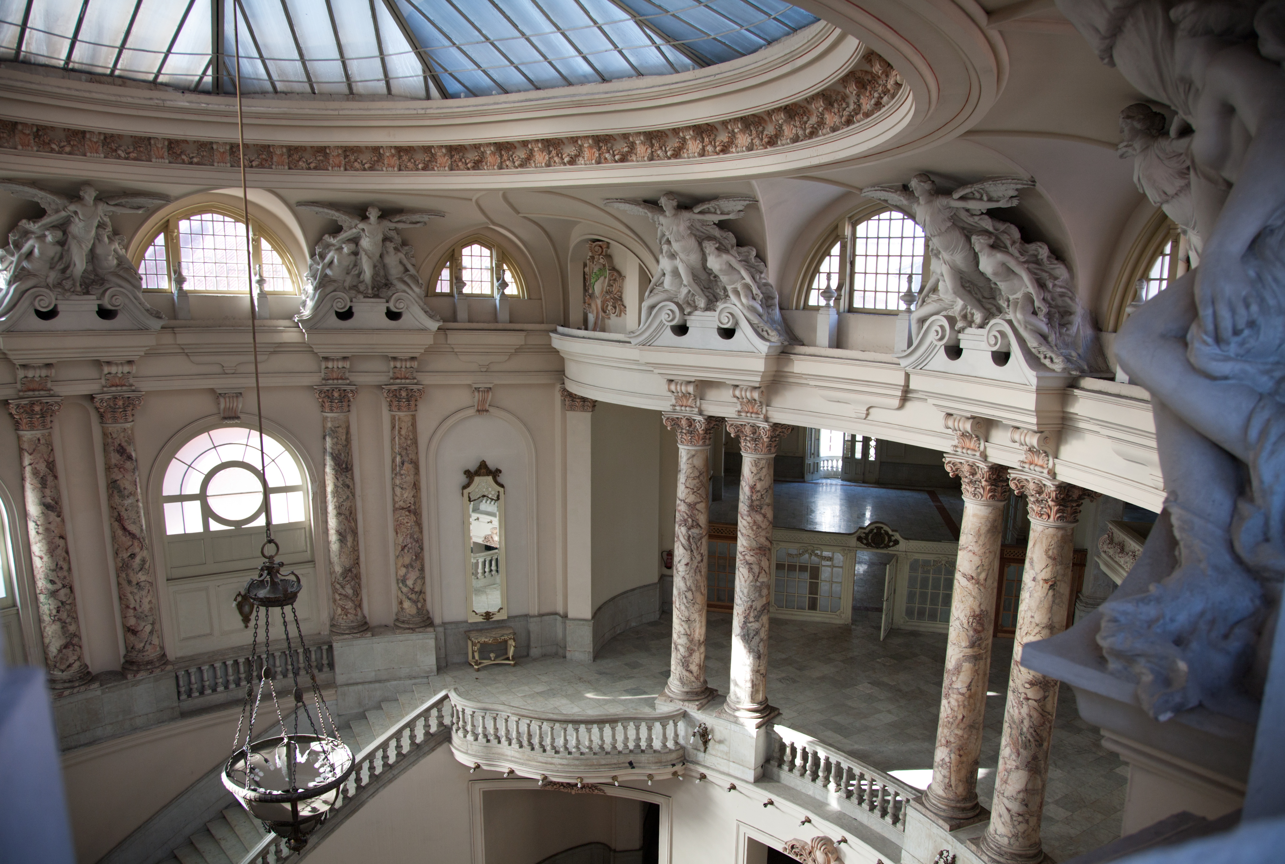 Teatro Nacional de la Habana. Main Hall. Havana (La Habana), Cuba